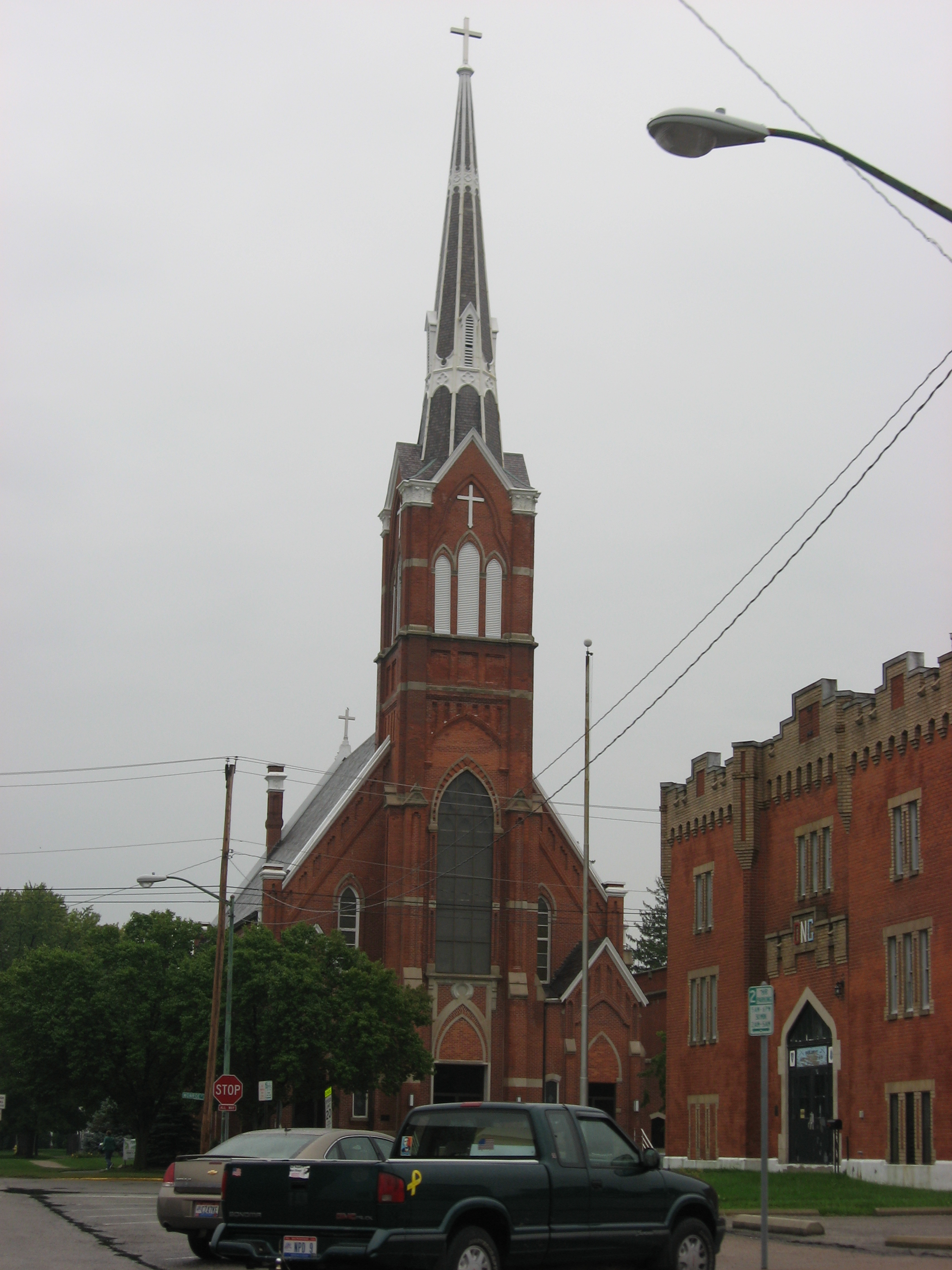 Front of St. Augustine's Catholic Church, located at 221 E. Clinton Street in Napoleon, Ohio, United States. Built in 1881, the church is listed on the National Register of Historic Places.